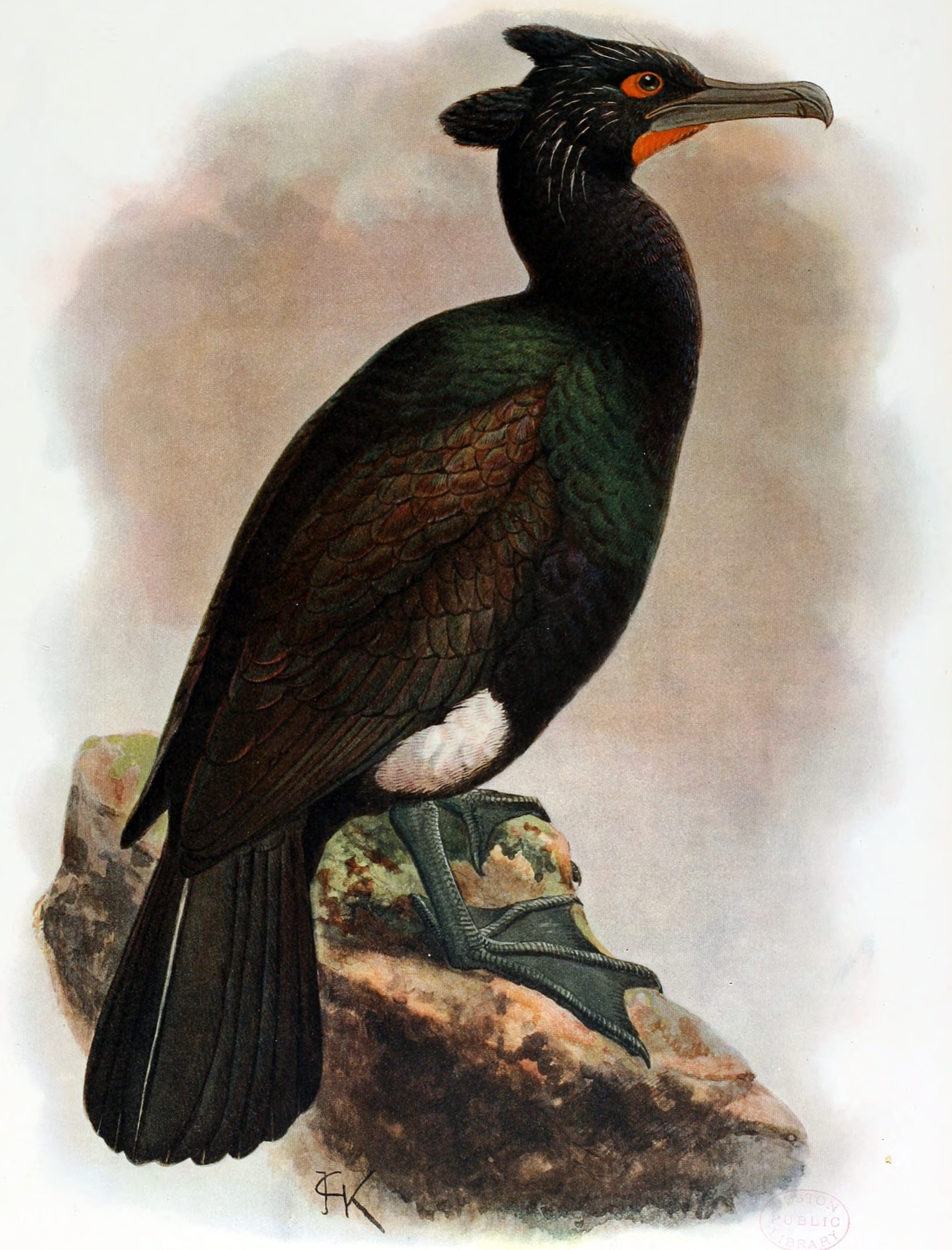 The Spectacled Cormorant or Pallas's Cormorant (Phalacrocorax perspicillatus) is an extinct marine bird of the cormorant family of seabirds that inhabited Bering Island and possibly other places in the Komandorski Islands. Seven-Sixteenths Natural Size